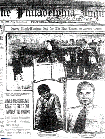 Philadelphia Inquirer on Shark attacks on New Jerseys Coast